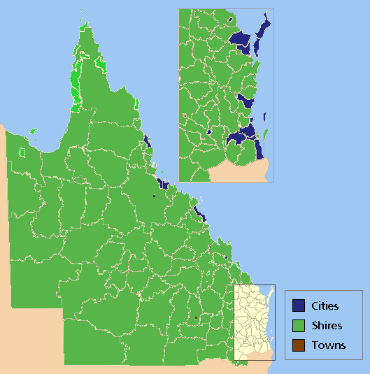 Types of Local Government Areas in Queensland